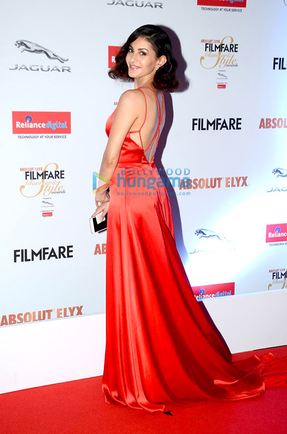 Dastur gracing ‘Filmfare Glamour & Style Awards 2016’